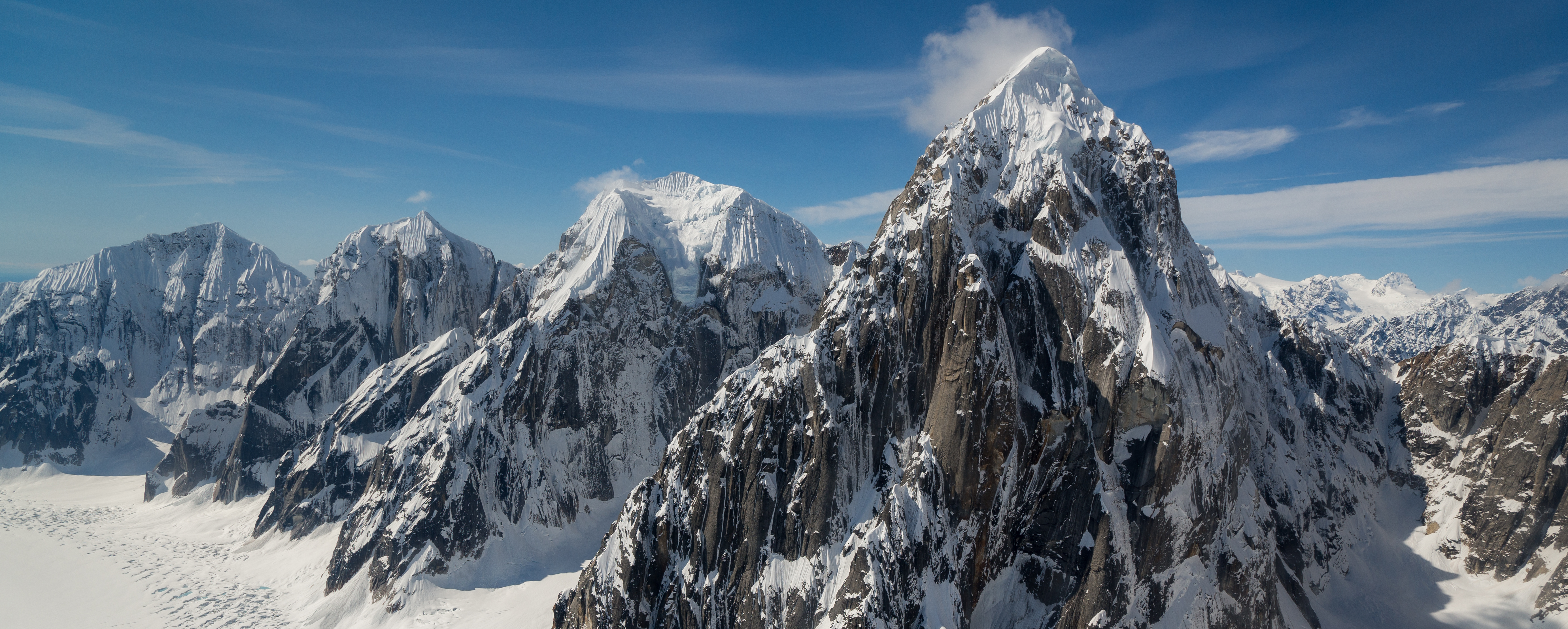 From back to front, Mount Church, Mount Dickey (2909 m), Mount Grosvenor (there another Grosvenor in Alaska, too.) and Mount Johnson